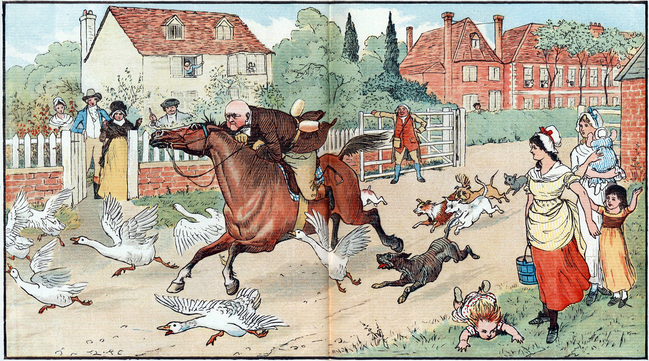 Page 0066 from The complete collection of pictures & songs by Randolph Caldecott